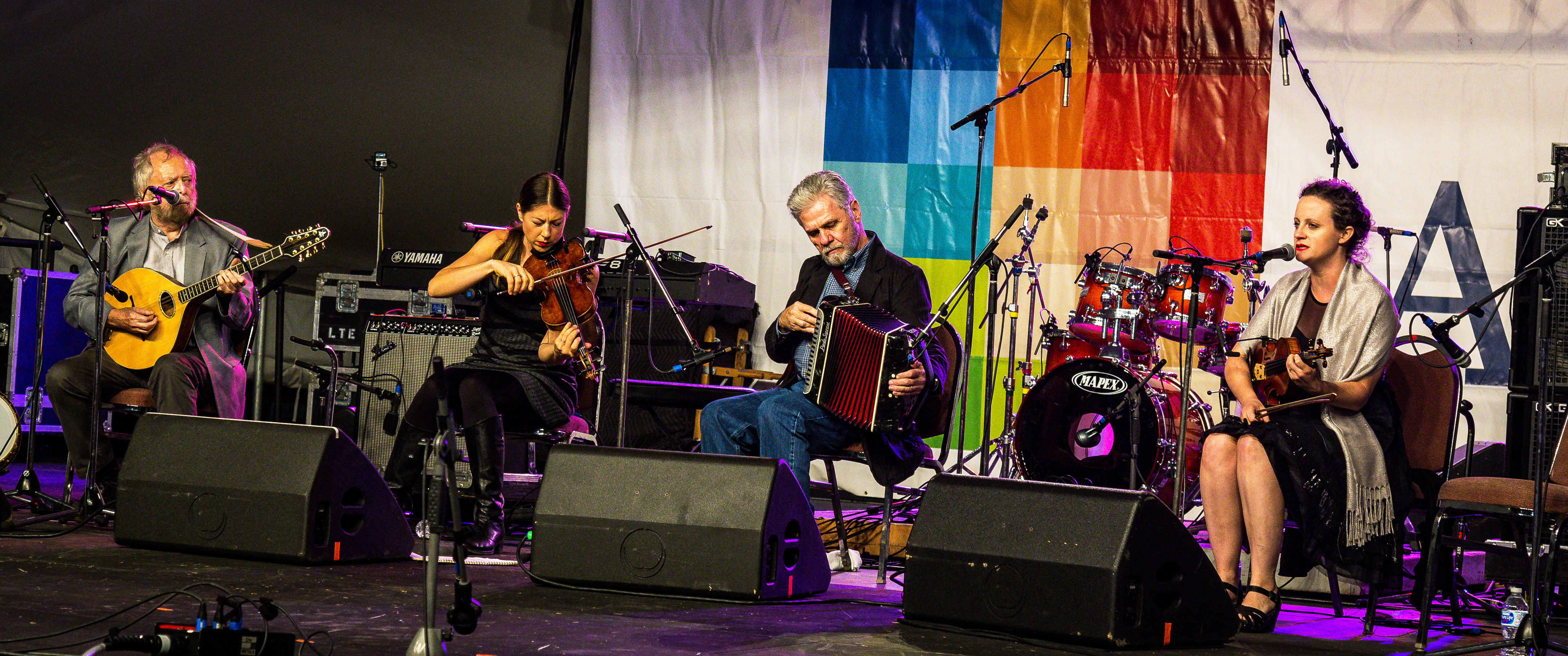 Photo taken at 2017 Richmond Folk Festival, Richmond, VA, USA